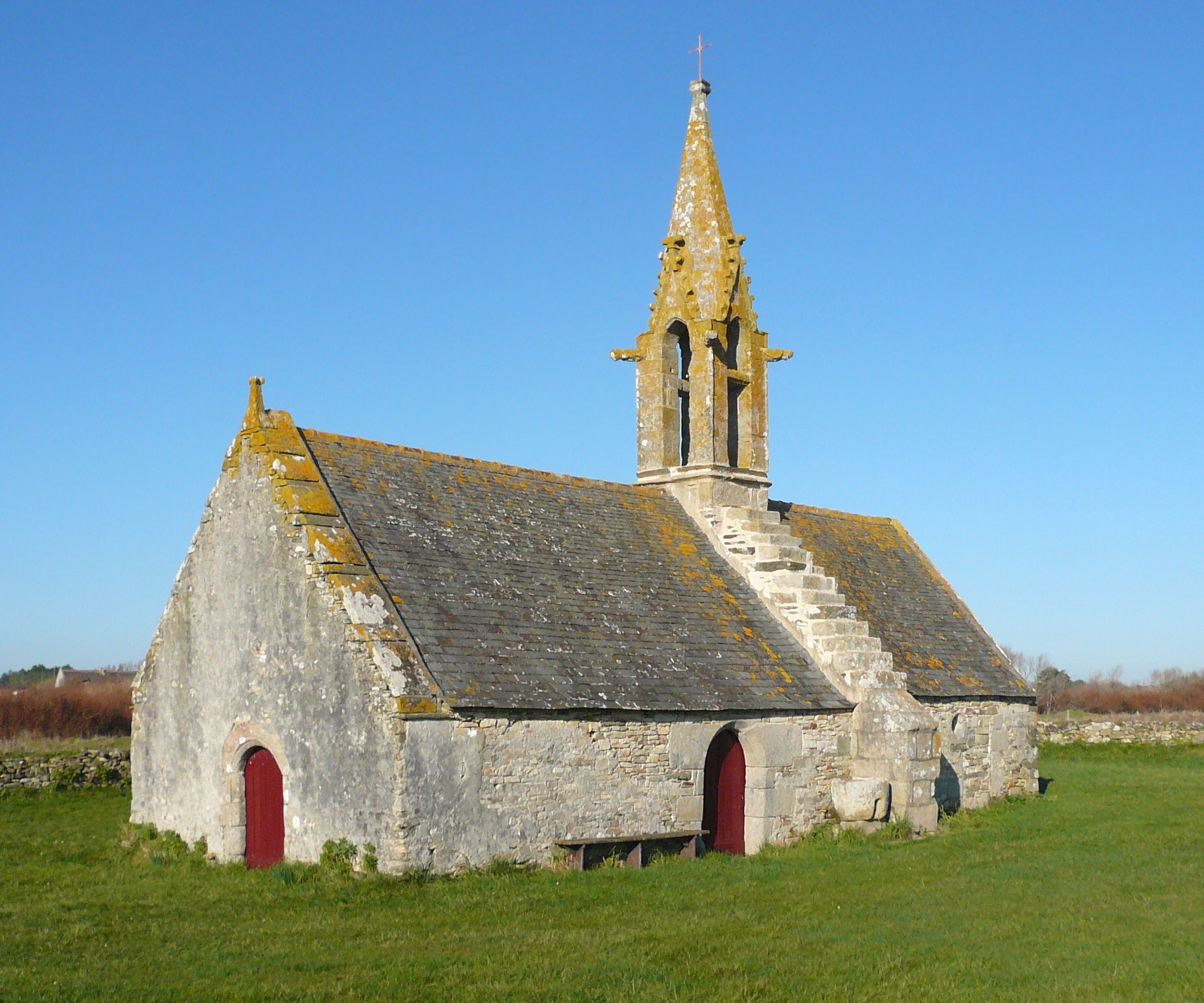 St. Vio's chapel in Tréguennec, Finistère, Brittany, France.